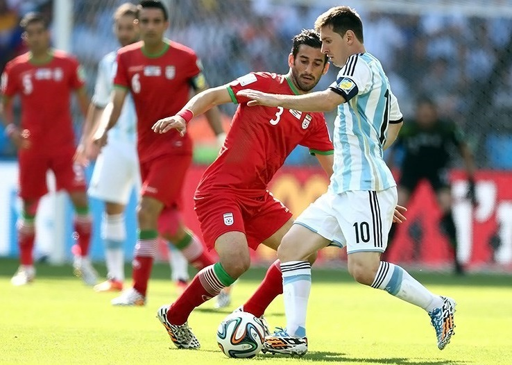 Iran and Argentina national football teams match, 2014 FIFA World Cup Group F